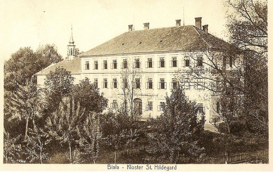 Lipnik Palace in Bielsko-Biała, Poland, in 1900.